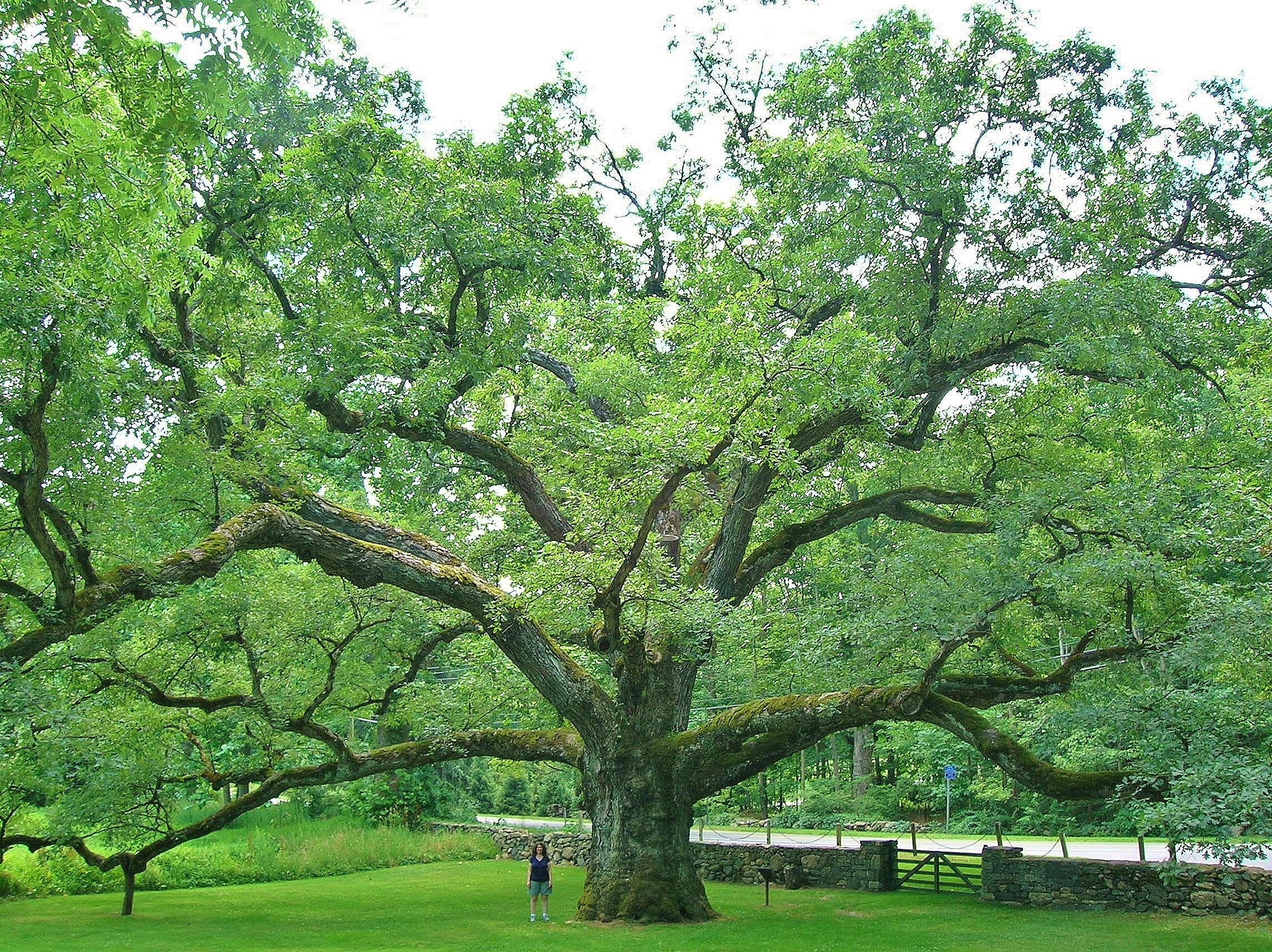 Photo of the "Bedford Oak" tree located in Bedford, NY, taken in July 2012.